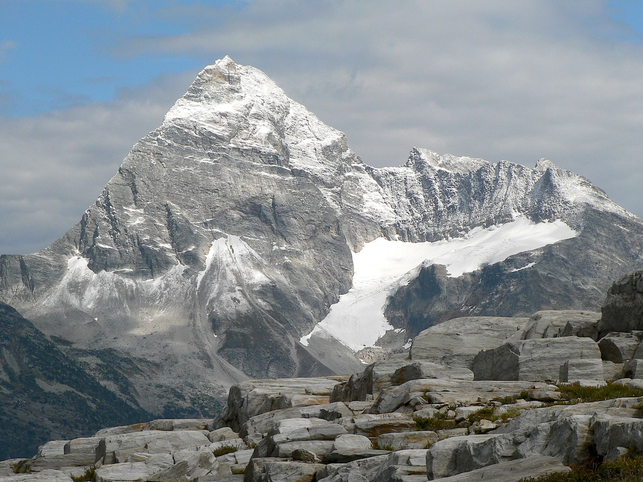 Mount Sir Donald from Abbot Ridge. BC Canada